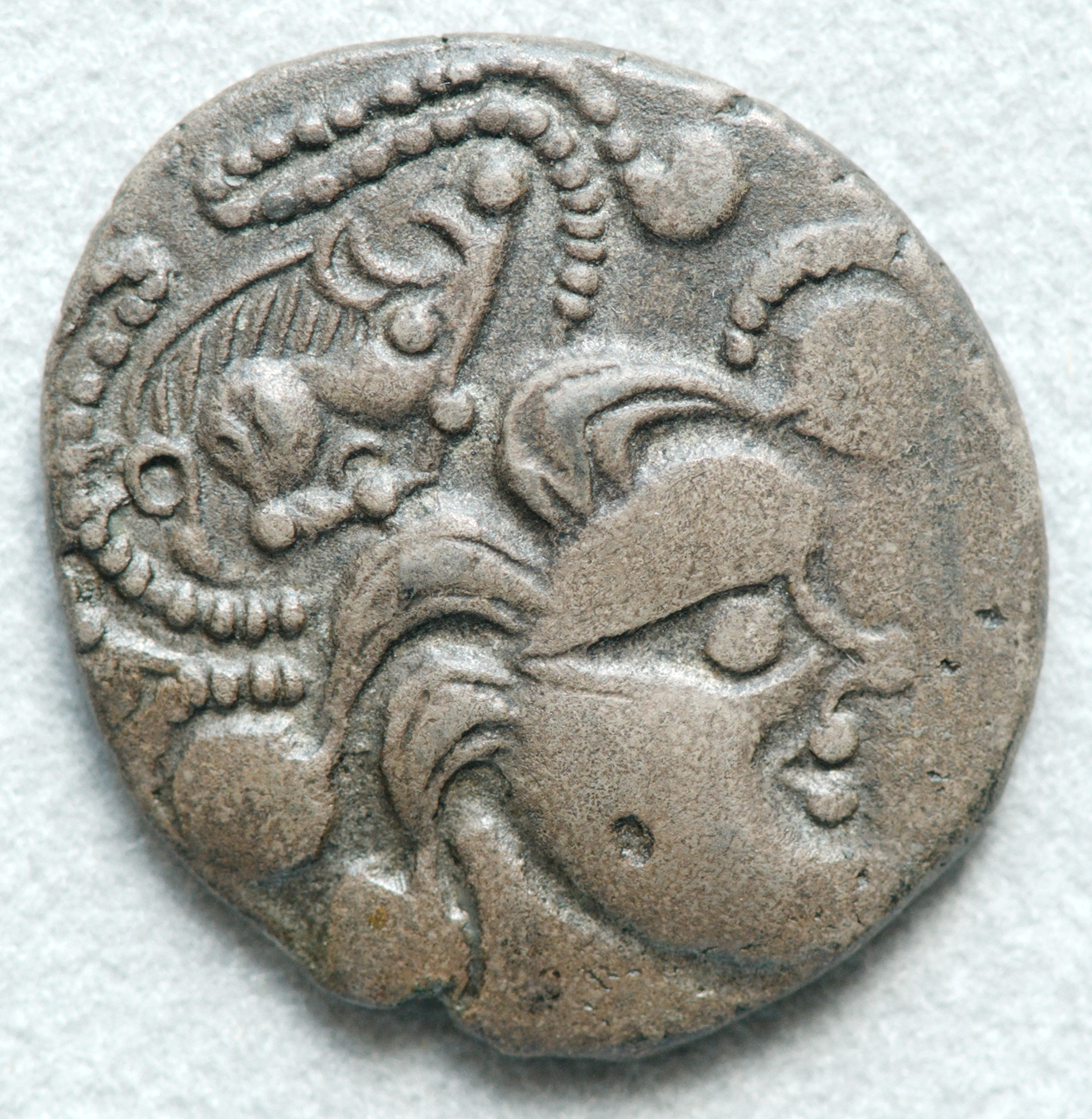 Billon stater of the Baiocasses (area of Bayeux) with head right, beaded cord and a boar above.